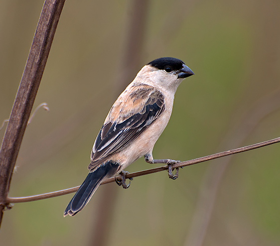 Pearly-bellied Seedeater at Santa Barbara d'Oeste - SP - Brazil